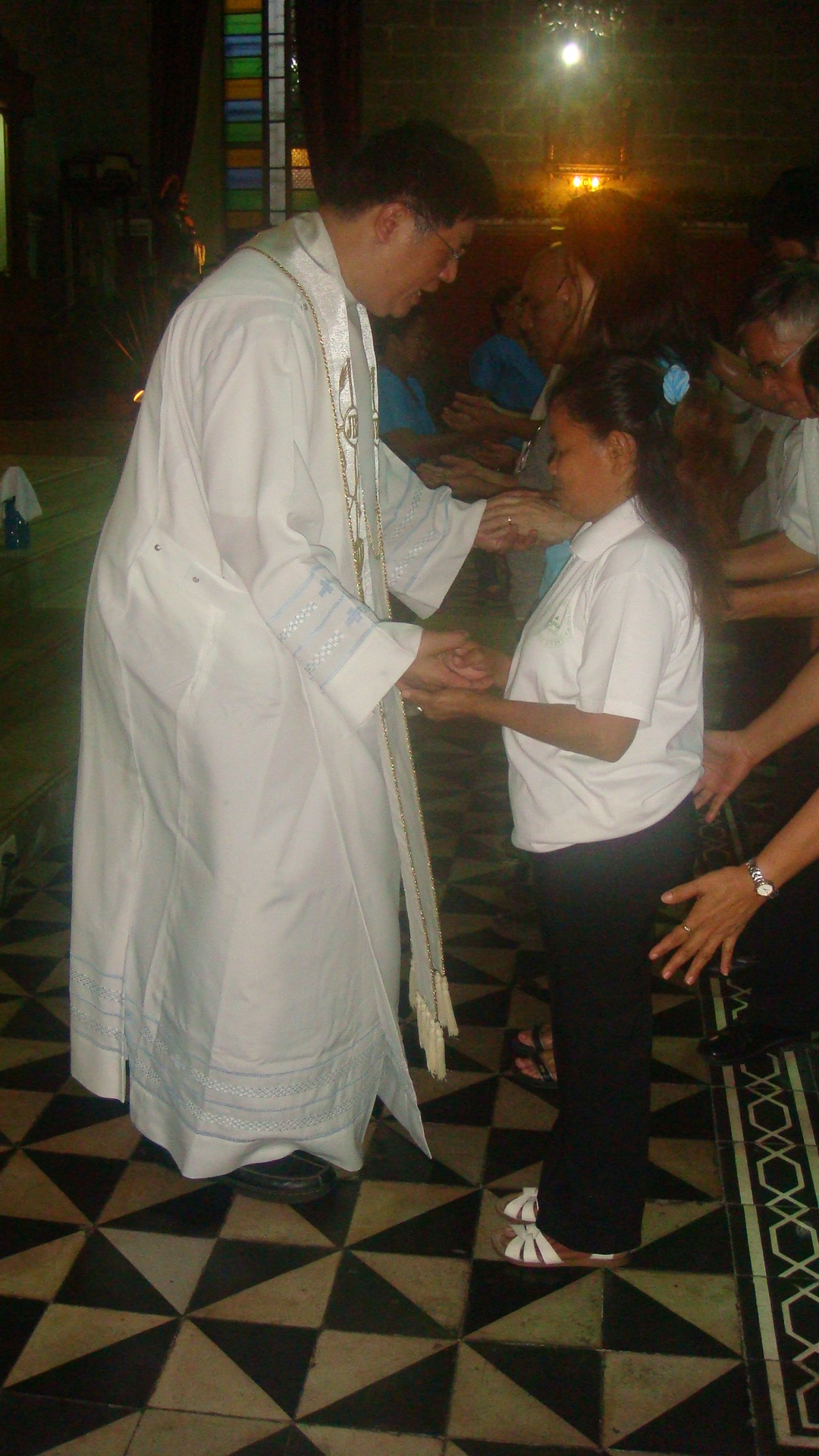 Famous Filipino spiritual (faith) healer Rev. Fr. Joseph (Joey ) A. Faller[1] at Pulilan, Bulacan Mass healing.